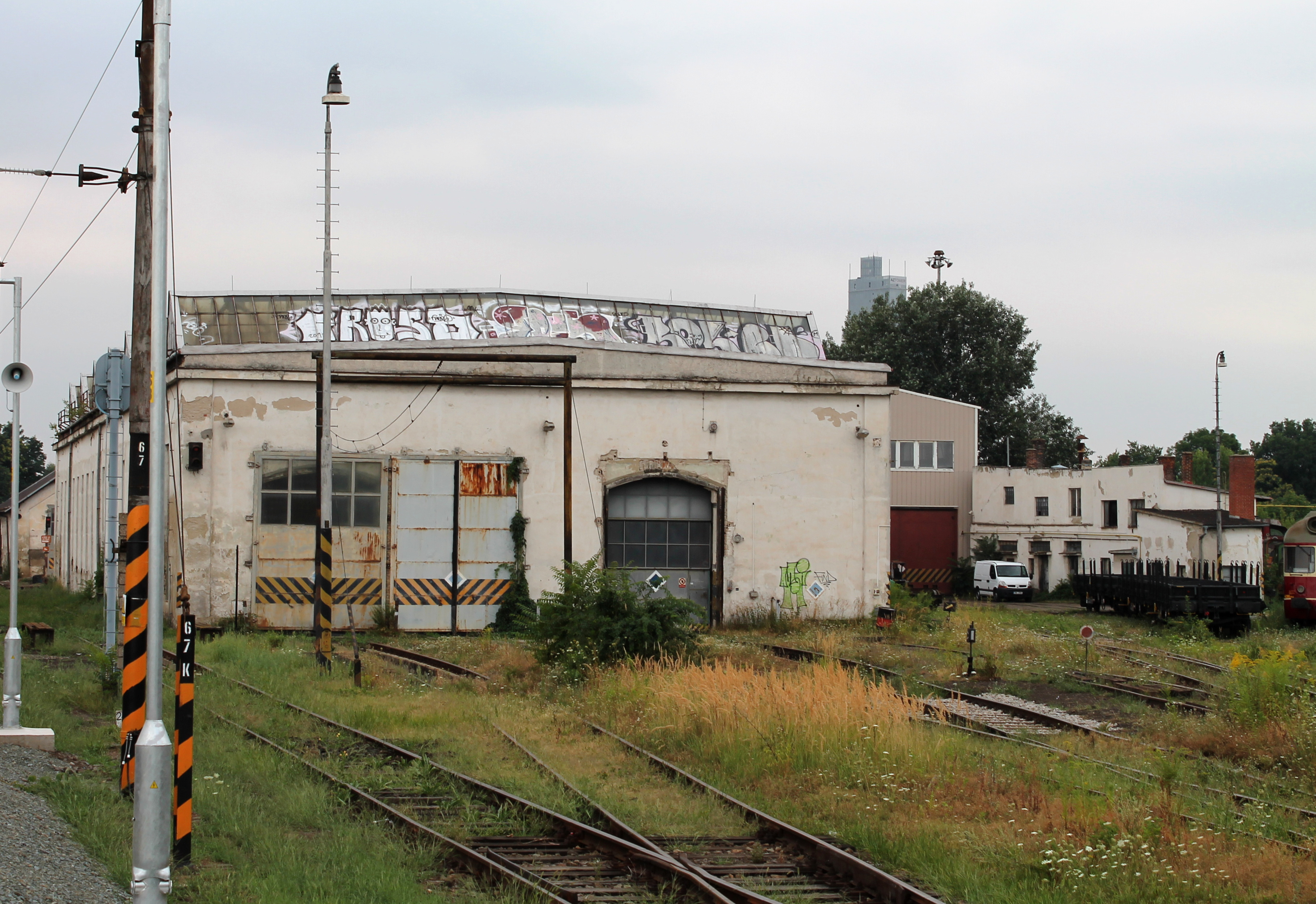 Railway station Brno-Dolní nádraží, Czech Republic